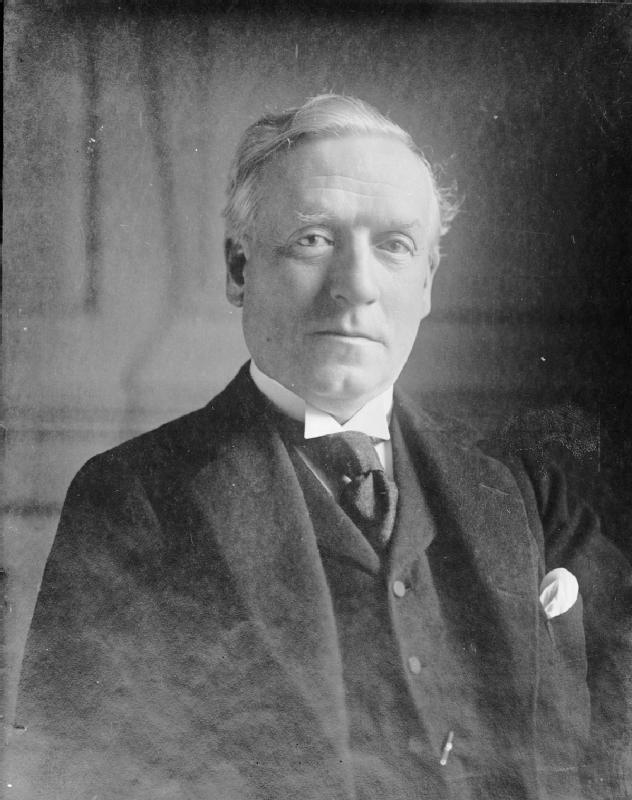 Herbert Henry Asquith British Prime Minister 1908 -1916